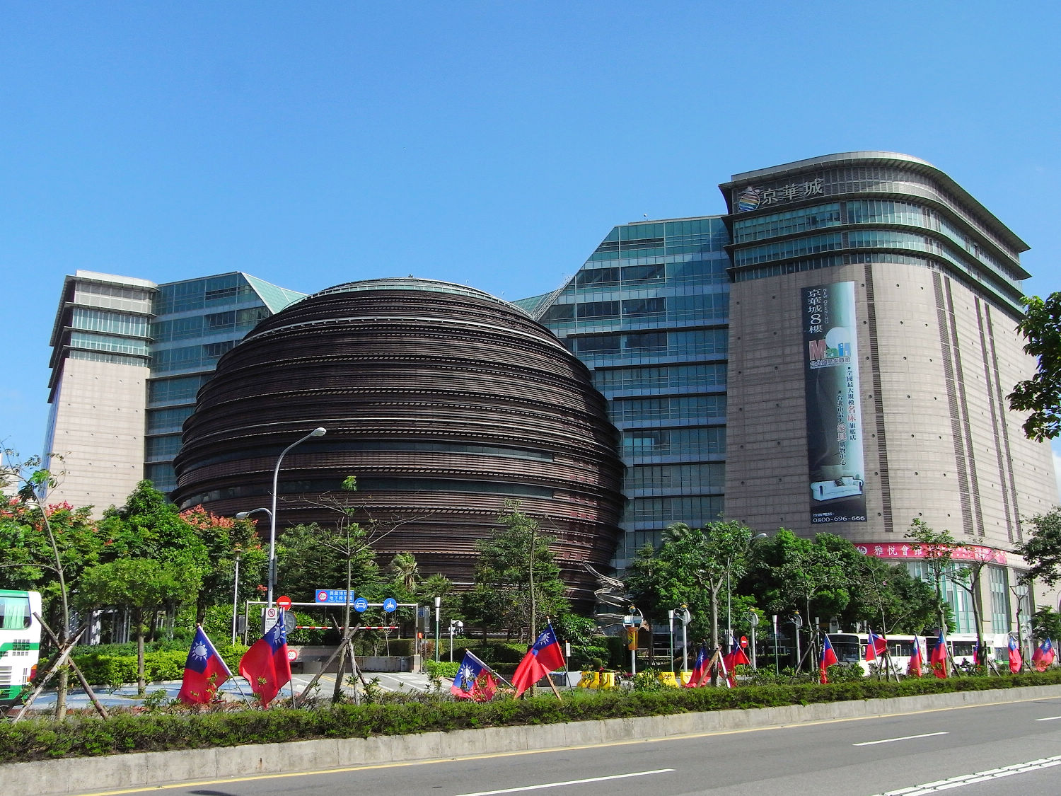 Core Pacific City and flags of the Republic of China.